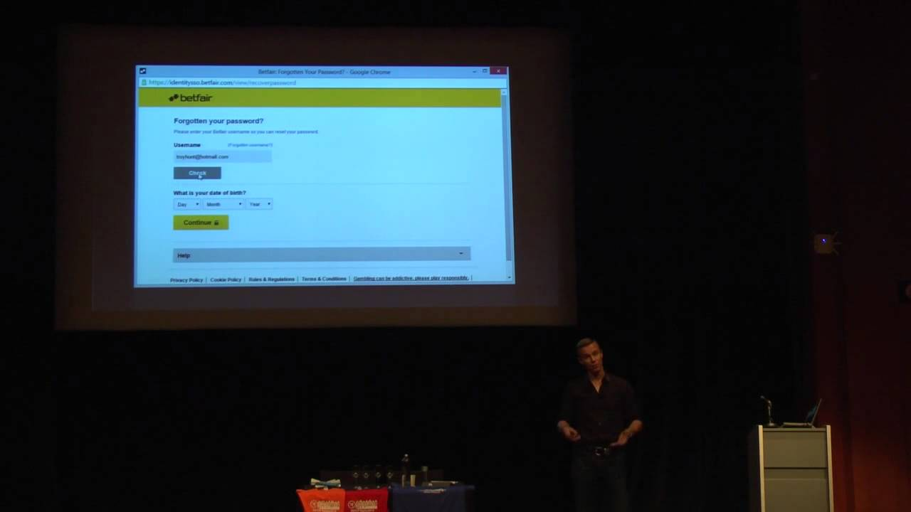 Troy Hunt, an Australian web security expert known for his website Have I Been Pwned?, giving his talk "50 Shades of AppSec" at OWASP AppSec EU 2015 in Amsterdam